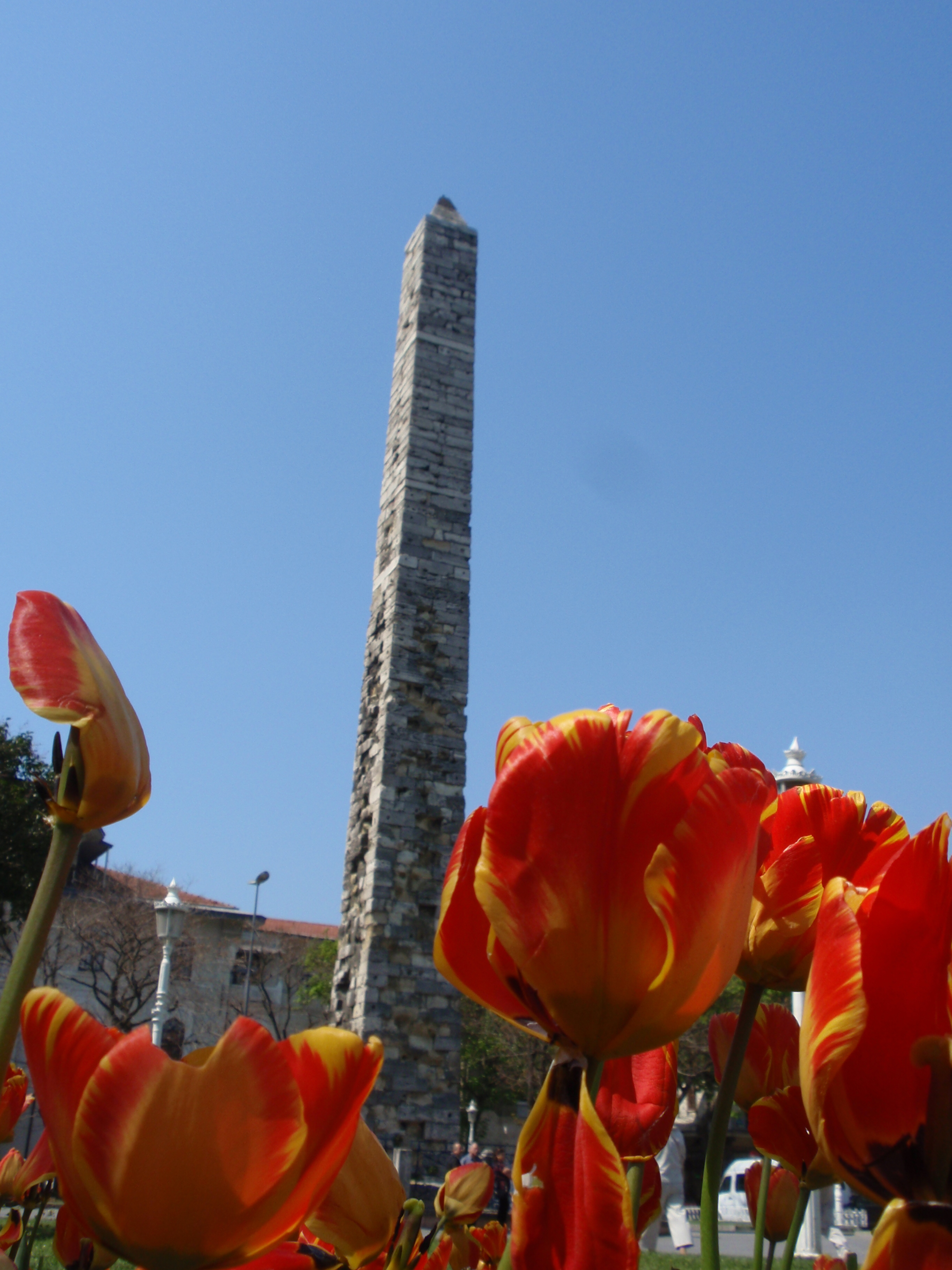 Walled Obelisk